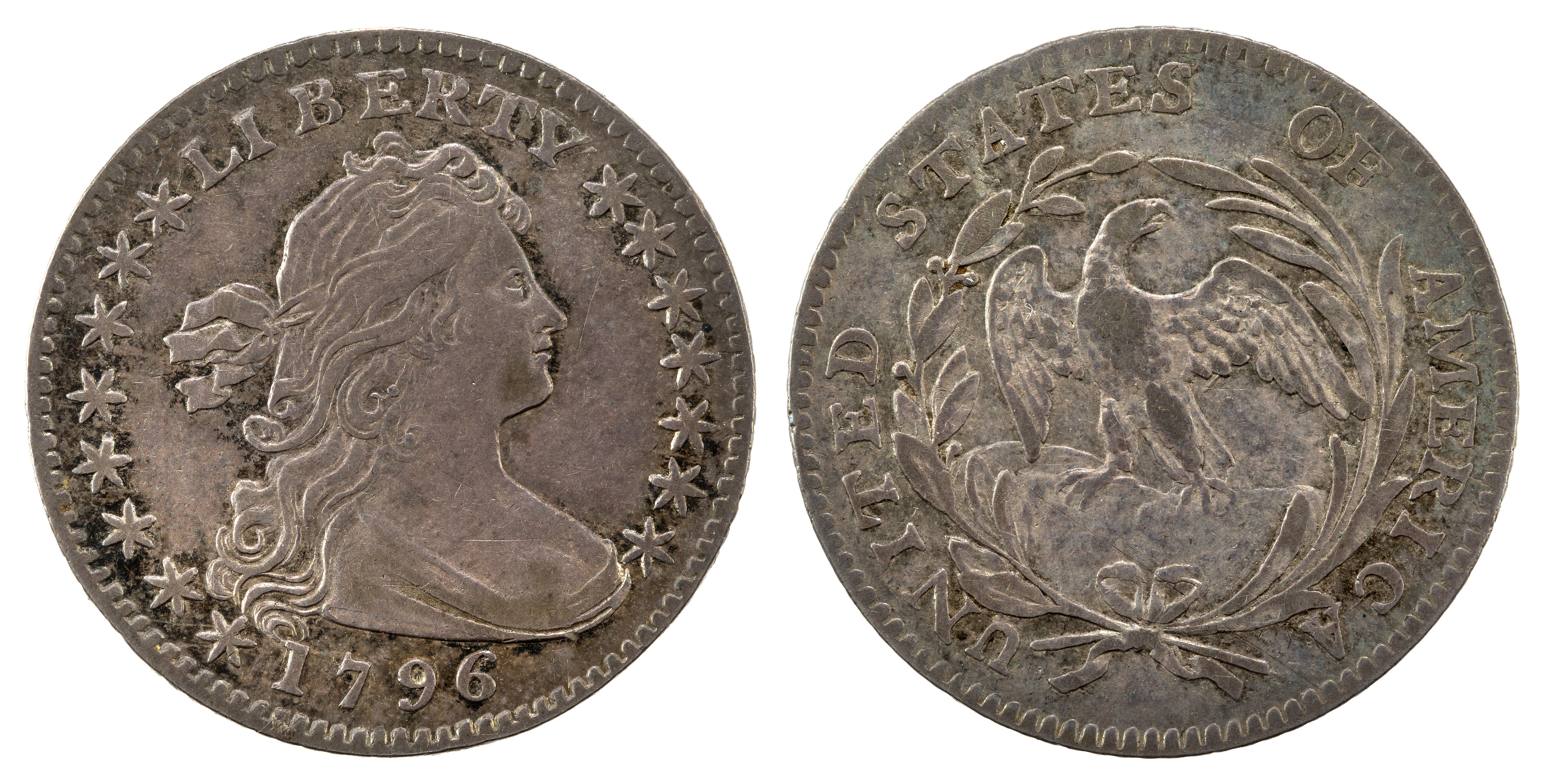 1796-5C-Draped Bust (small eagle)JN2015-6562-63